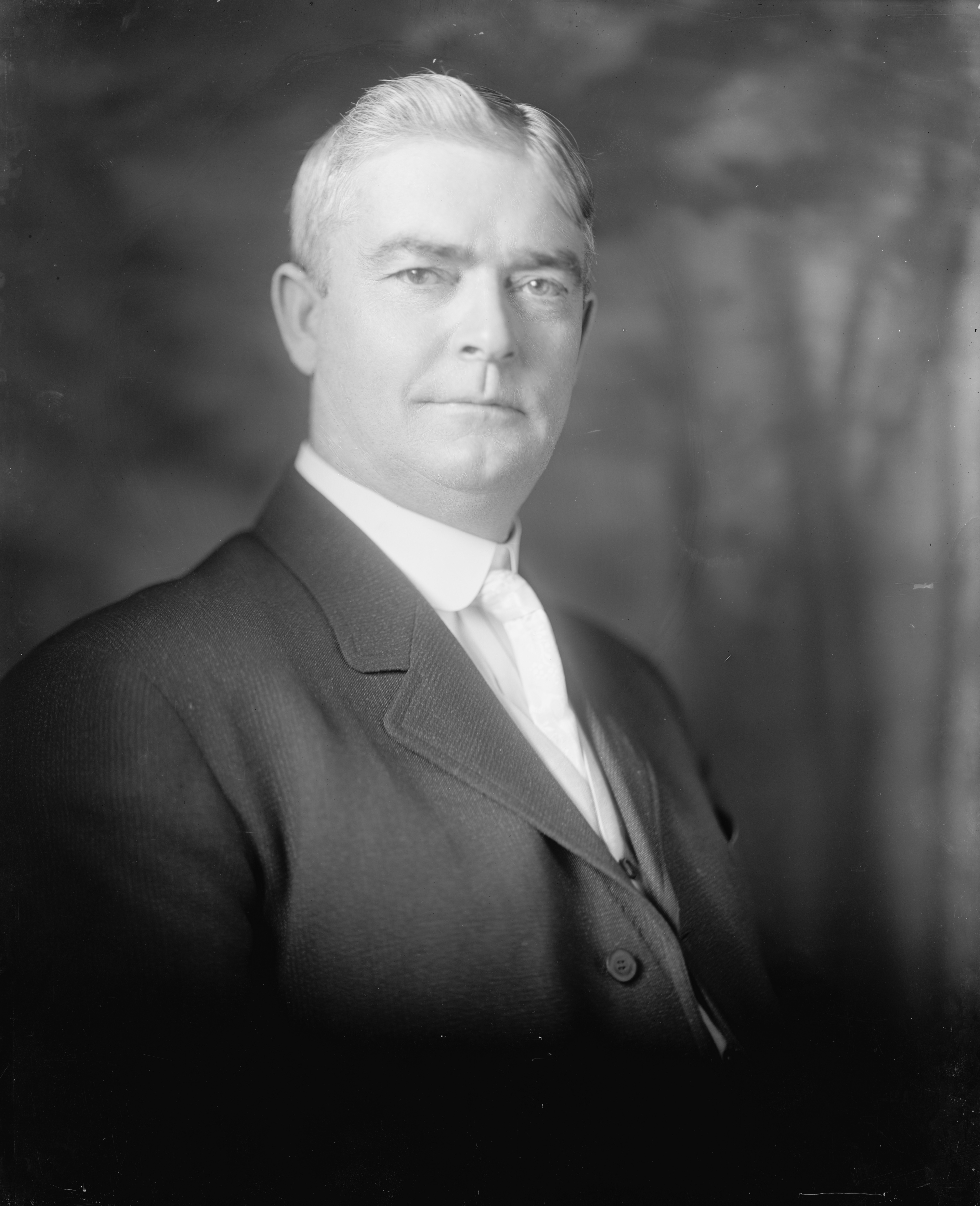 Title: BUCHANAN, FRANK. HONORABLE Abstract/medium: 1 negative : glass ; 8 x 10 in. or smaller